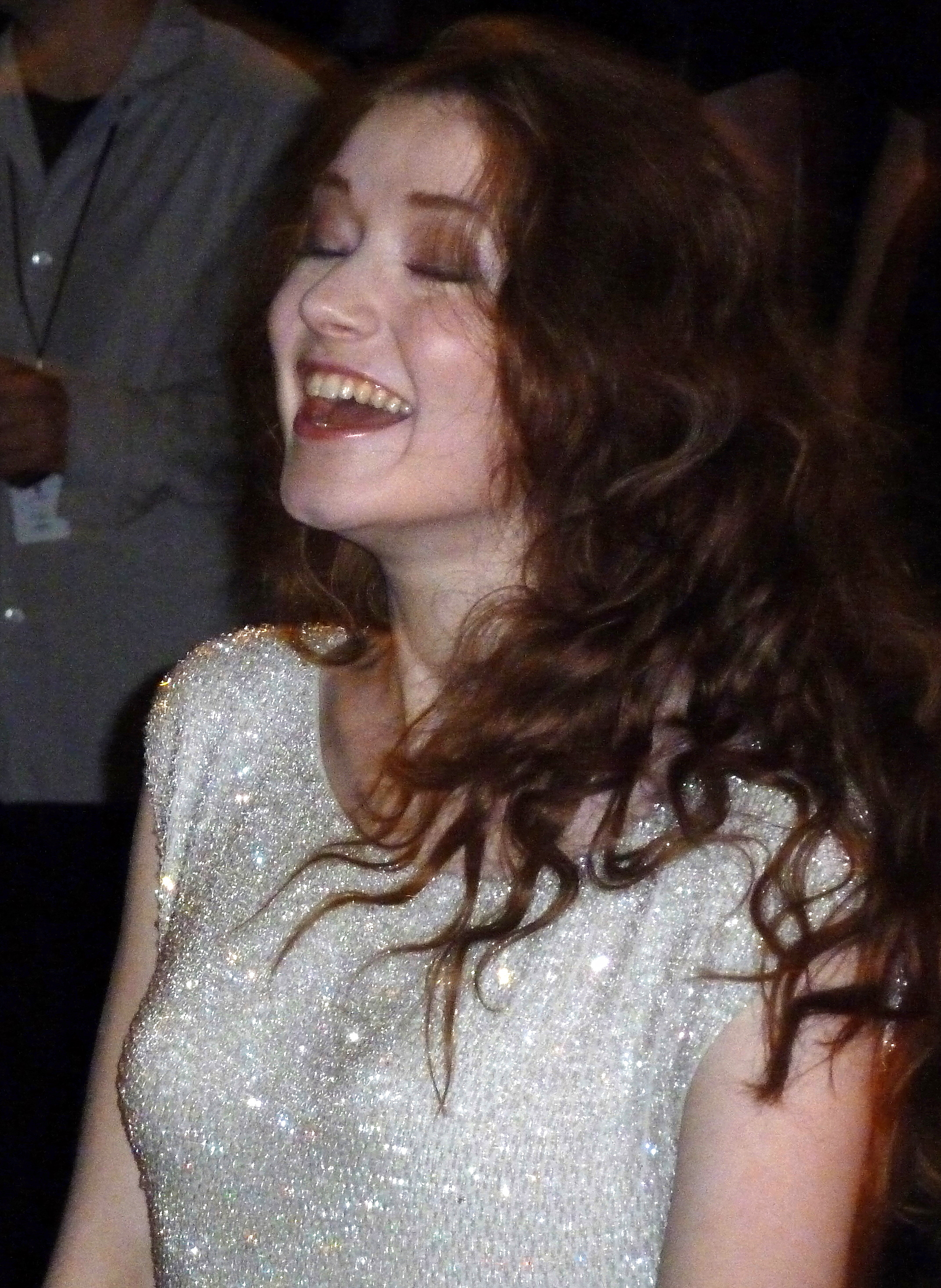 Sarah Bolger at the Toronto International Film Festival 2011.